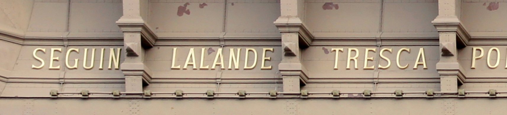 Part of the names on the north west side of the Eiffeltower